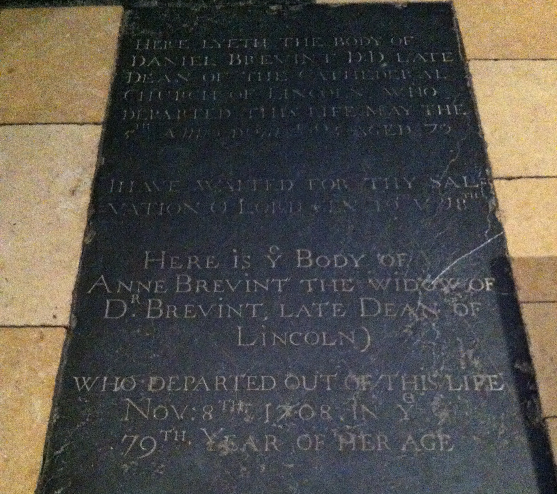 Daniel Brevint, Dean of Lincoln, died 1695 Anne Brevint, died 8 November 1708